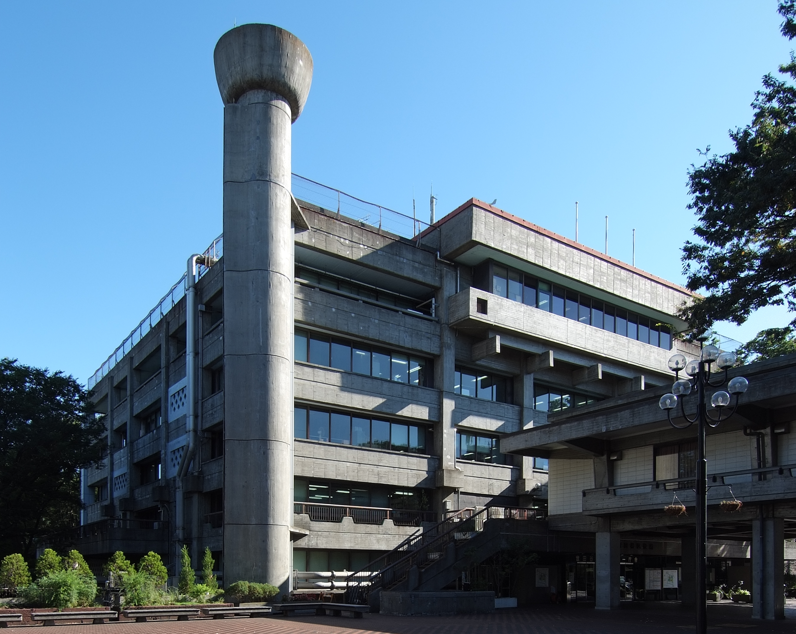 Setagaya Ward Office, at Setagaya-ku Tokyo Japan, design by Kunio Maekawa.